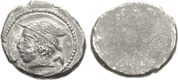 Etruria, Populonia. 3rd century BC. AR 5 Asses (3.30 g). Head of Turms left, wearing winged petasos; mark of value to right Blank. Vecchi 1-5 var. (unlisted obv. die); HN Italy 123; SNG ANS -; SNG Copenhagen 40; BMC 31. Good VF, toned. Extremely rare, only 12 examples recorded by Vecchi, 9 of which are in museums.